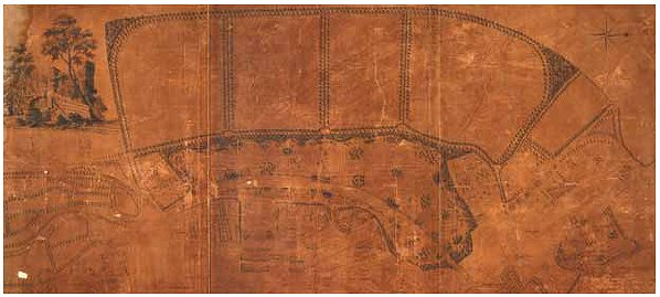 A plan submitted by Lancelot ("Capability") Brown to the University of Cambridge in Cambridge, England, in the UK, for the redevelopment of The Backs. The plan, entitled A Plan Presented to the University of Cambridge for Some Alterations – by Lancelot Brown, 1779, was never implemented.